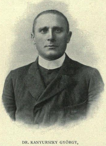 Portrait of Kanyurszky György